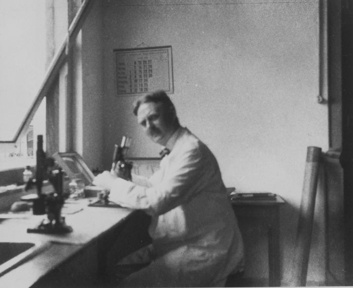 Professor Ernst Rodenwaldt doing research in the Health Laboratory in Weltevreden, Batavia.